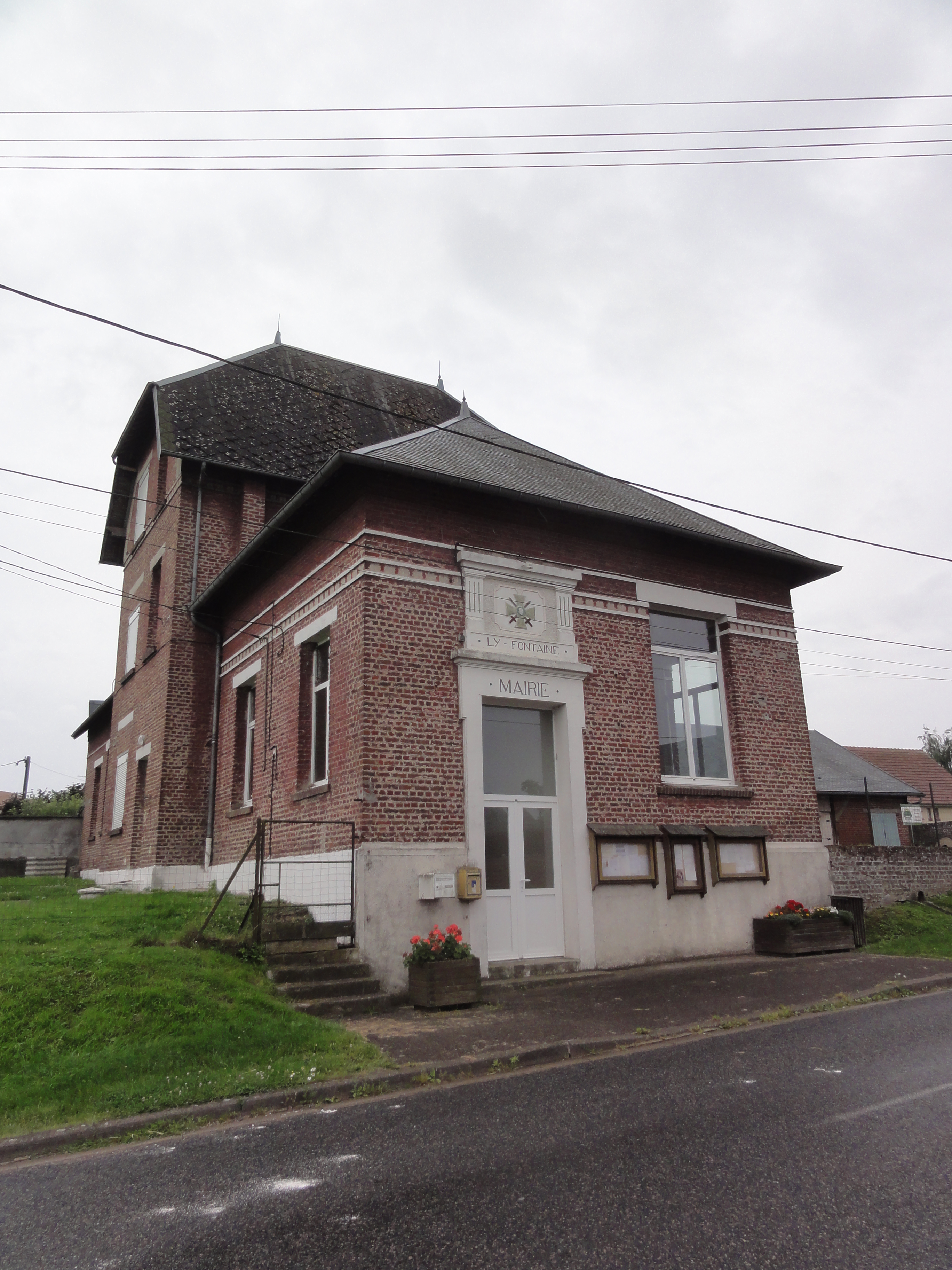 Ly-Fontaine (Aisne) mairie